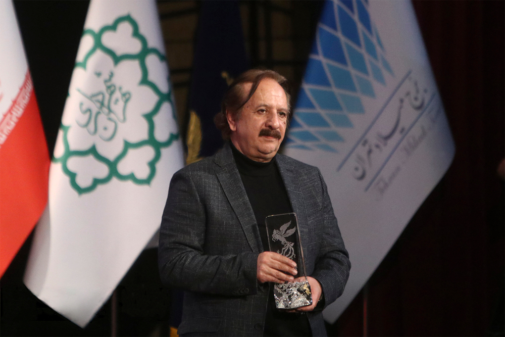 Closing ceremony of the 38th annual Fajr Film Festival at the Milad Tower conference hall on February 11, 2020, in Tehran, Iran